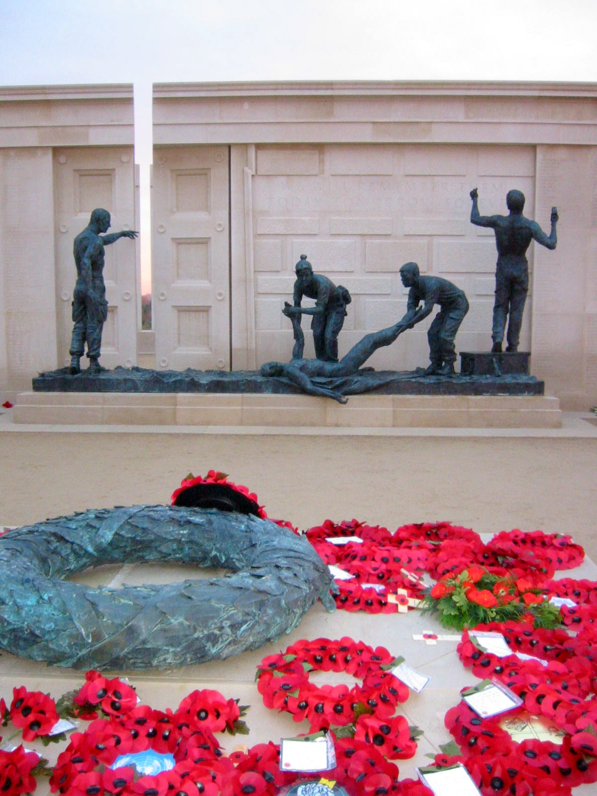 Armed Forces Memorial, Alrewas, Staffordshire. The Gates sculpture group showing opening in wall aligned on the sun's position for 11 November.